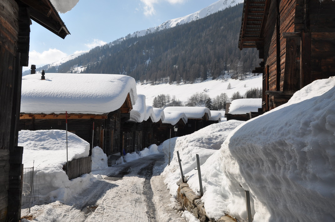 This shot was taken in Münster (Switzerland, Valais/Wallis).